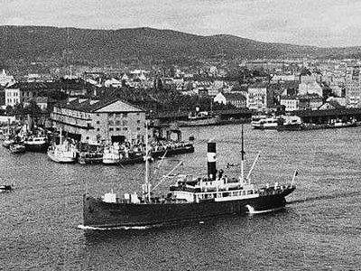 Norwegian passenger ship SS Jadarland in Oslo, 1937.